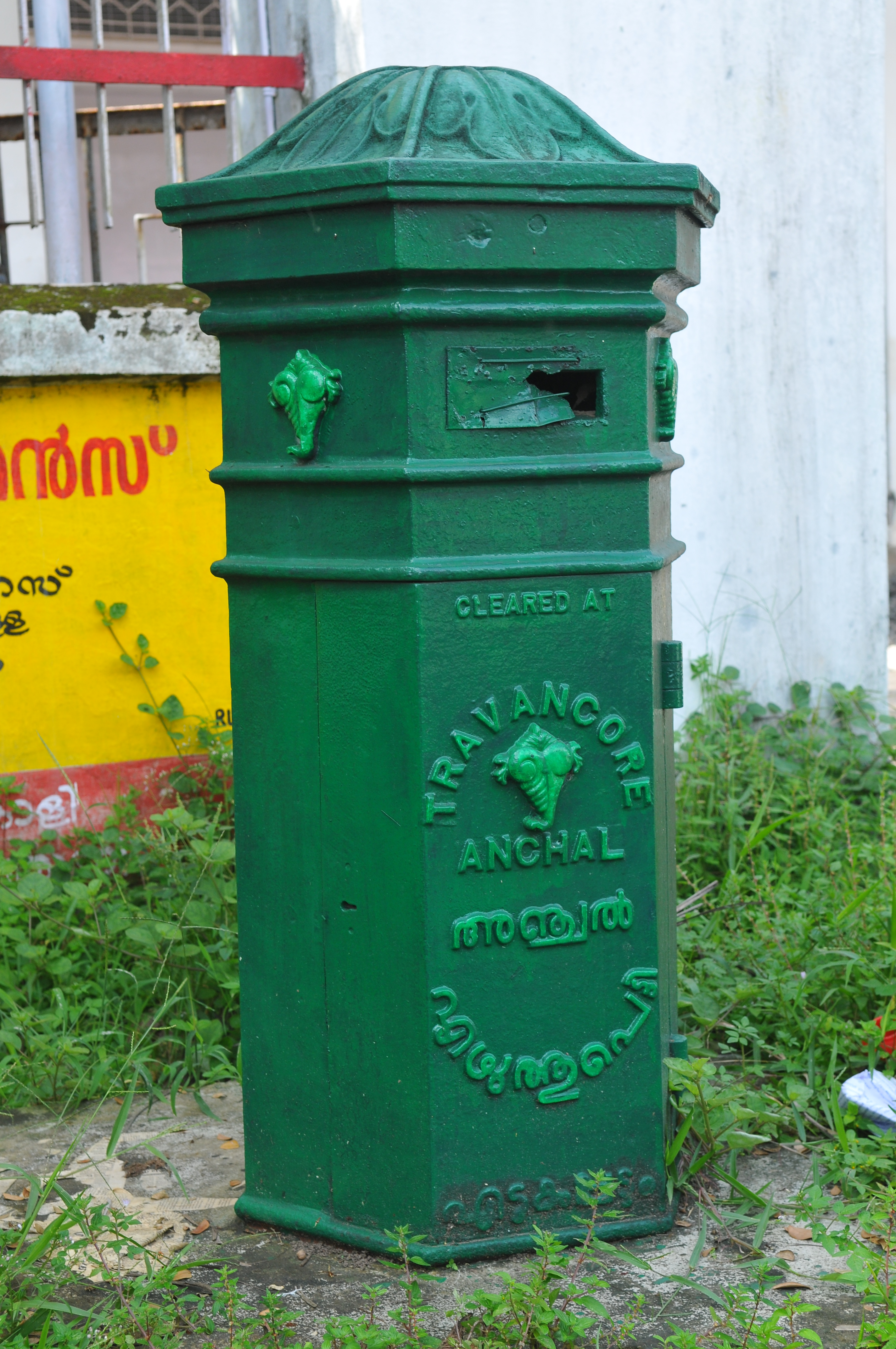 Post box of the former Travancore Anchal